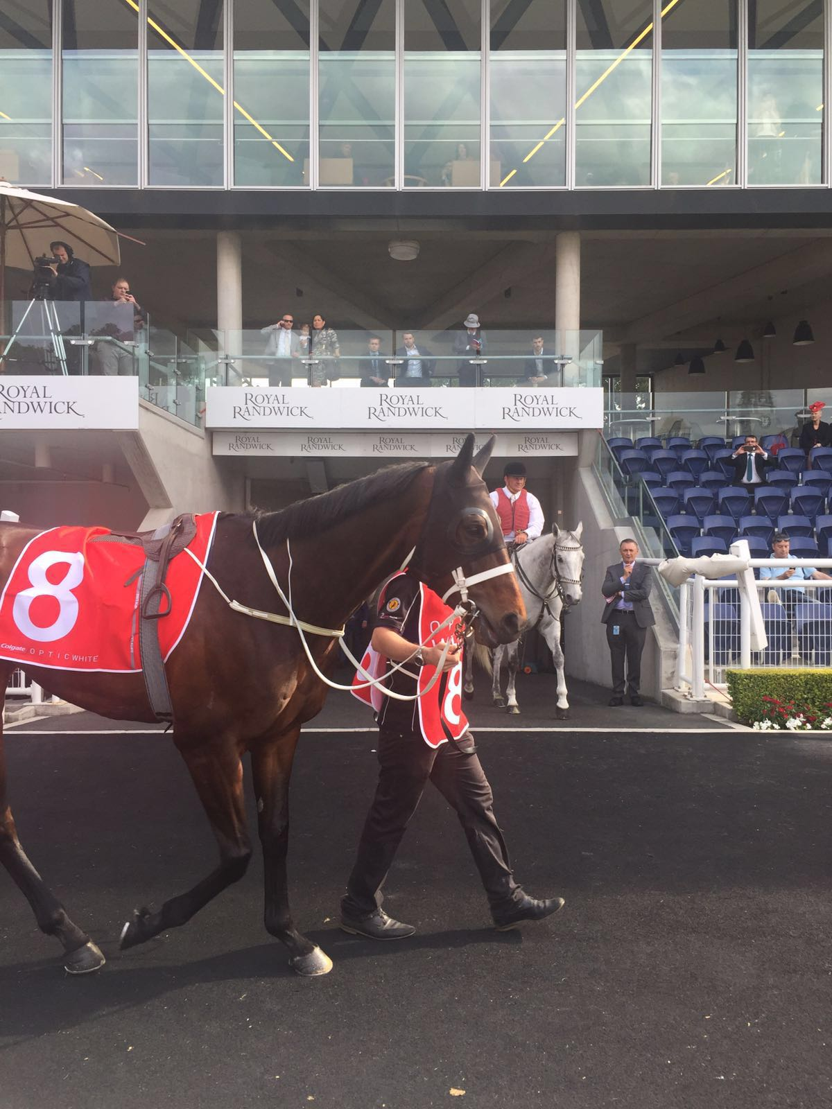 Winx, Cox Plate Winner Sire: Street Cry Dam: Vegas Show Girl